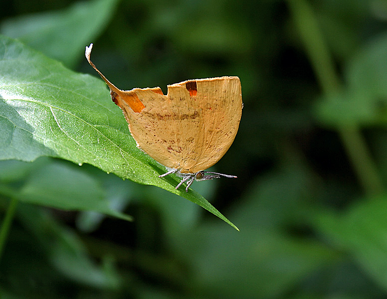 Yamfly Loxura atymnus. At Narenderpur near Kolkata, India